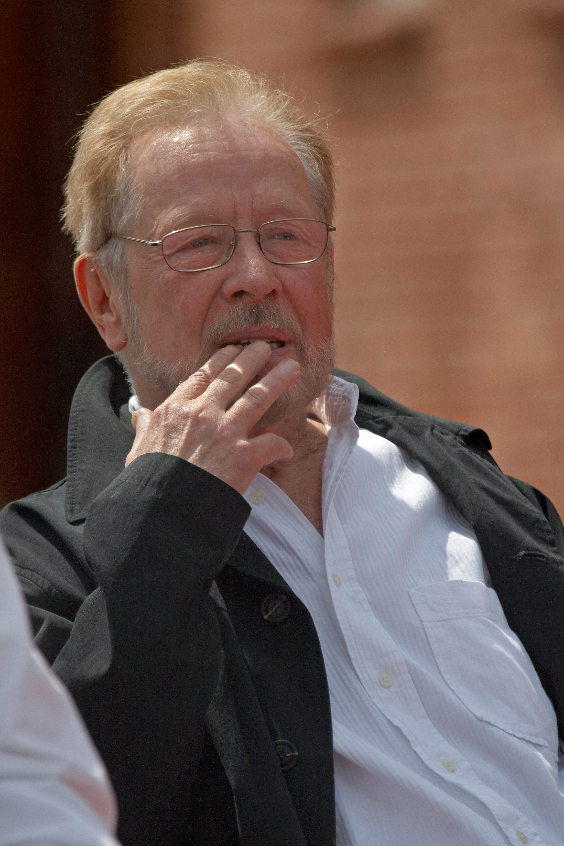 Władysław Kowalski - Festiwal Gwiazd in Gdańsk